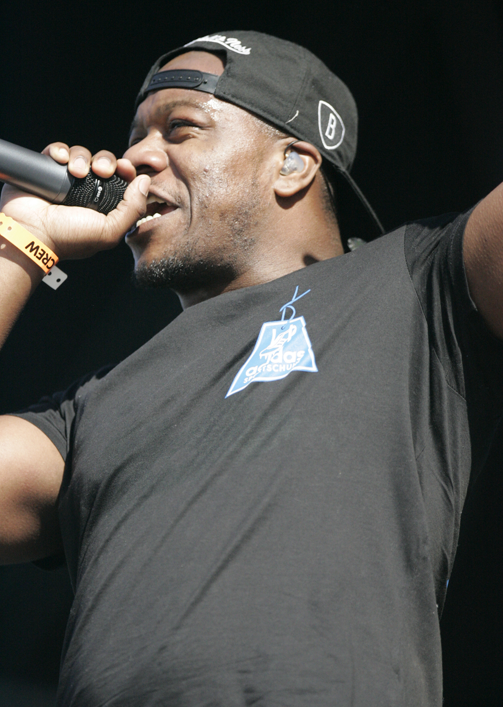 Future Music Festival, Randwick, Sydney, Australia...